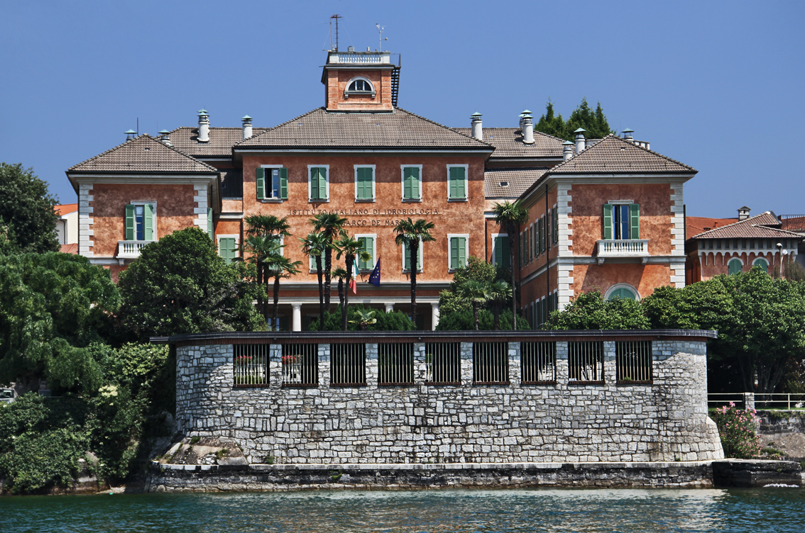 CNR ISE VB oggi